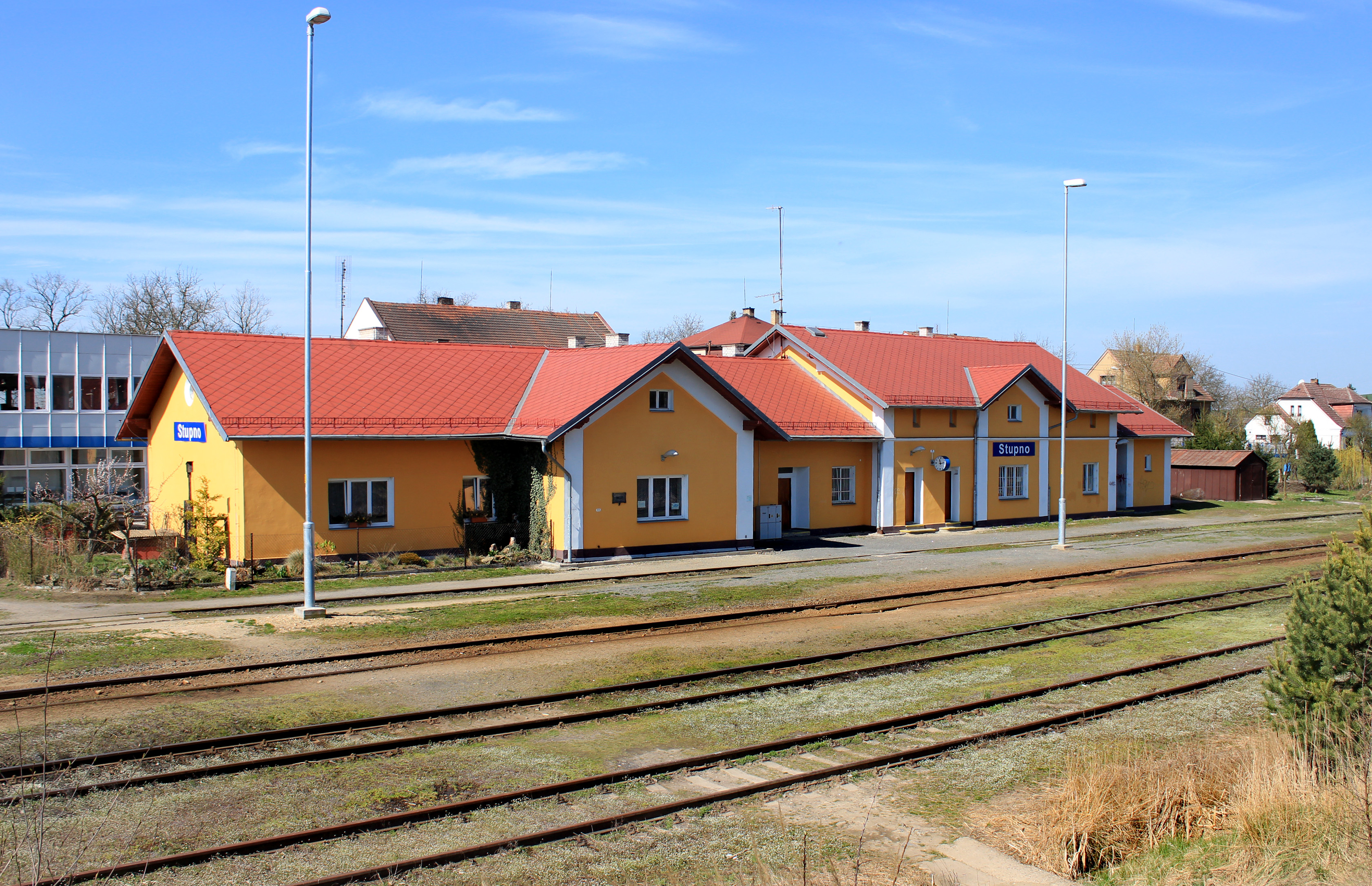 Train station in Stupno, part of Břasy, Czech Republic.